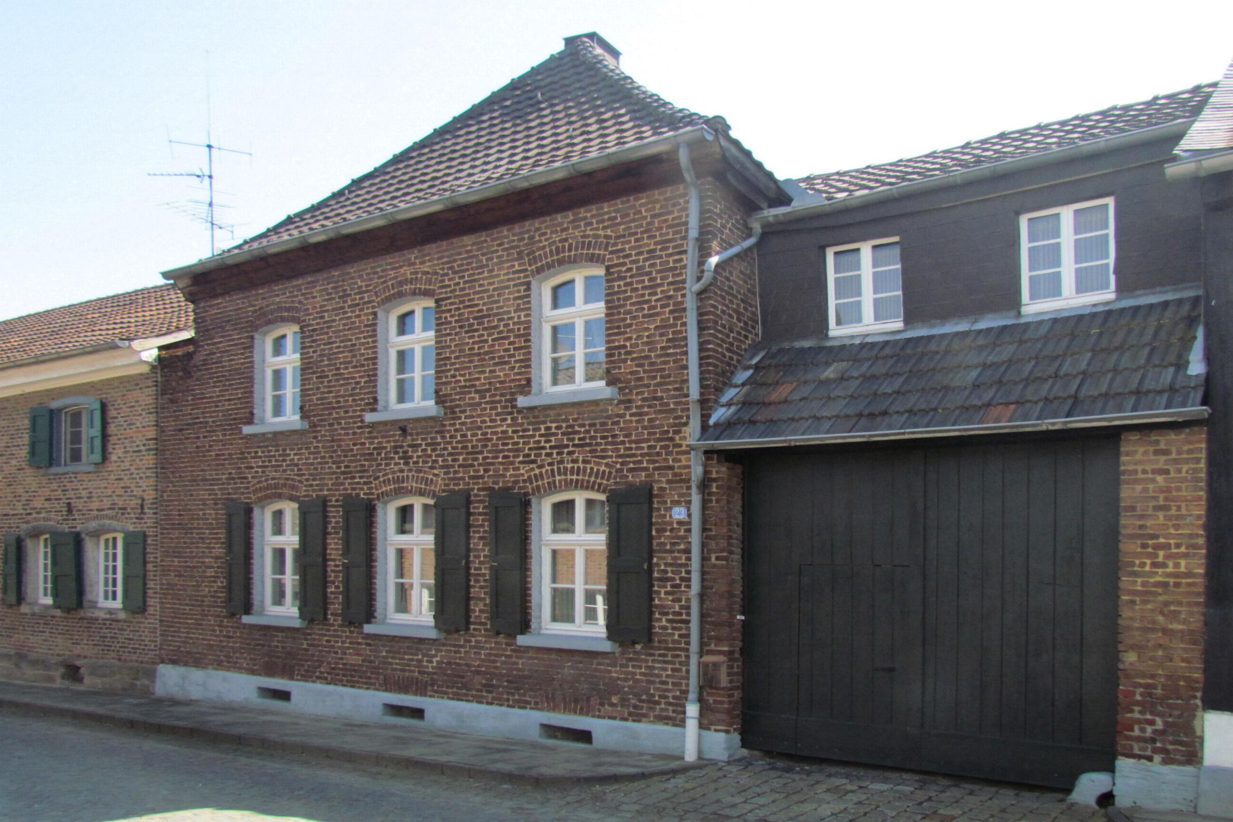 This is a photograph of an architectural monument.It is on the list of cultural monuments of Korschenbroich